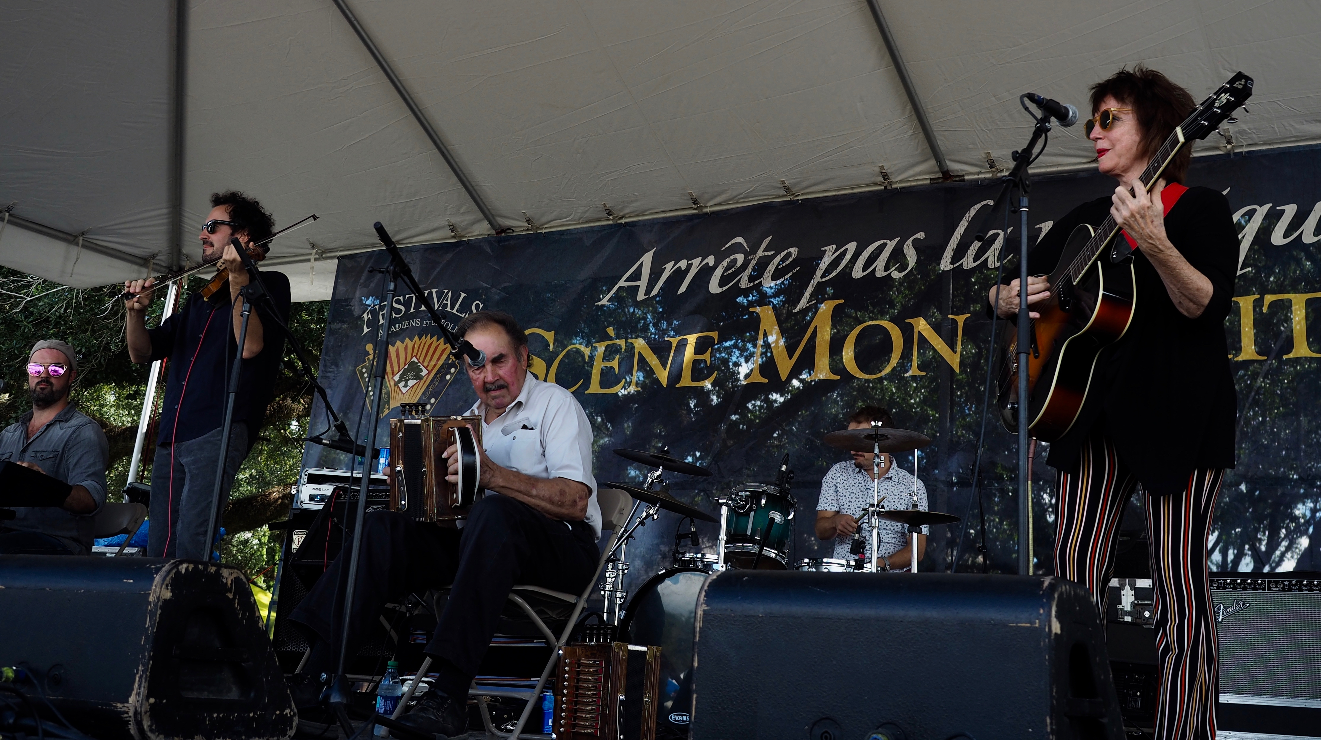 The Savoy Family Band performing at Festivals Acadiens et Creoles in Lafayette, LA on October 14, 2018.